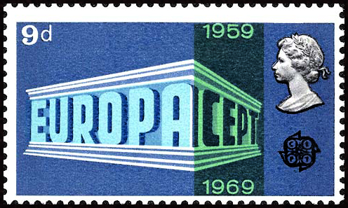 Postage stamp United Kingdom of Great Britain and Northern Ireland. 1969. Issue under the EUROPA-CEPT program.